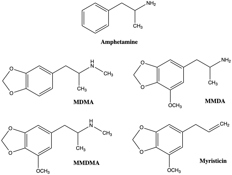 This image shows the structural similarity in amphetamine and its derivatives (MDMA and variations), contrasted to Myristicin that is amphetamine-like.